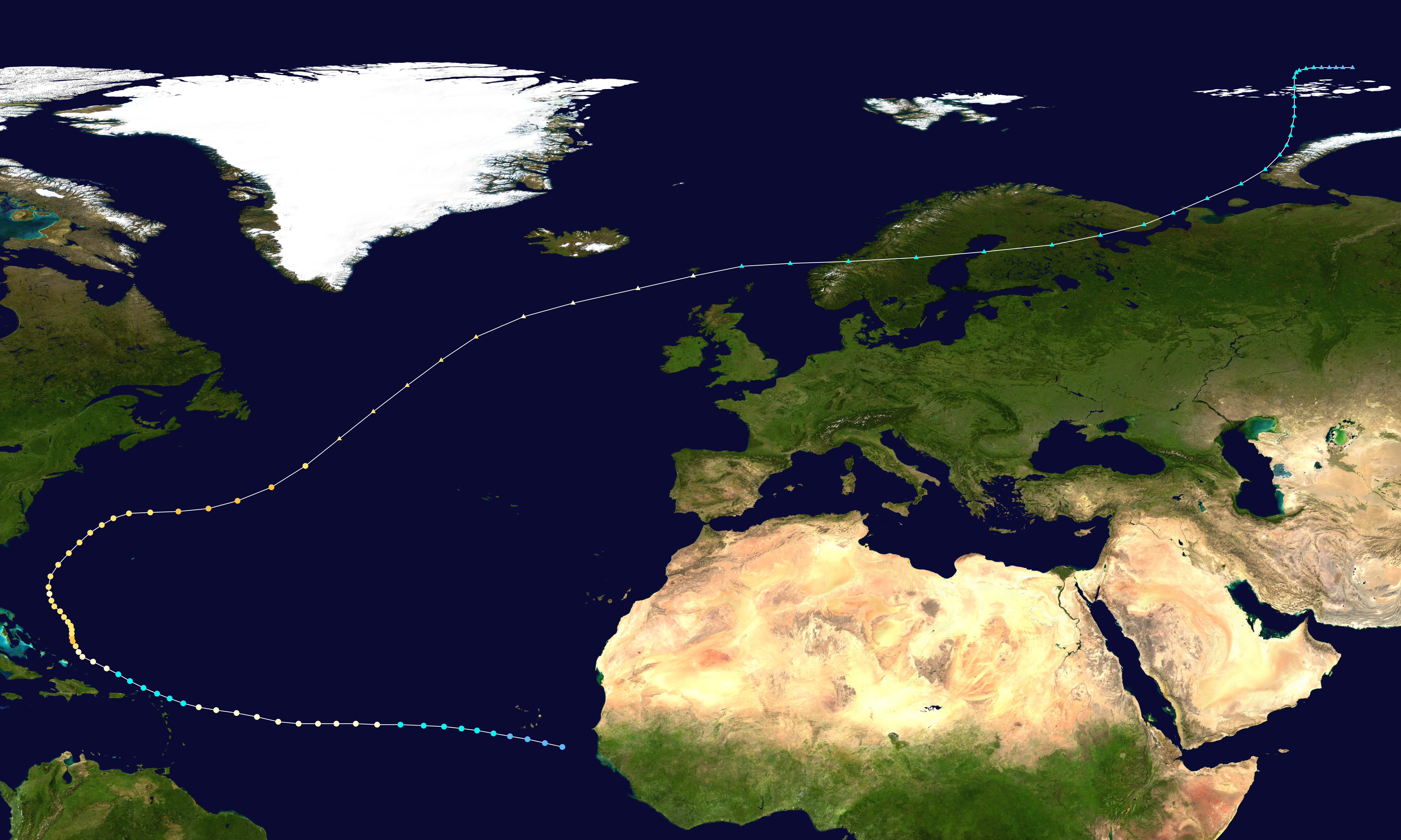 Hurricane Faith (1966) track. Uses the color scheme from the Saffir-Simpson Hurricane Scale.